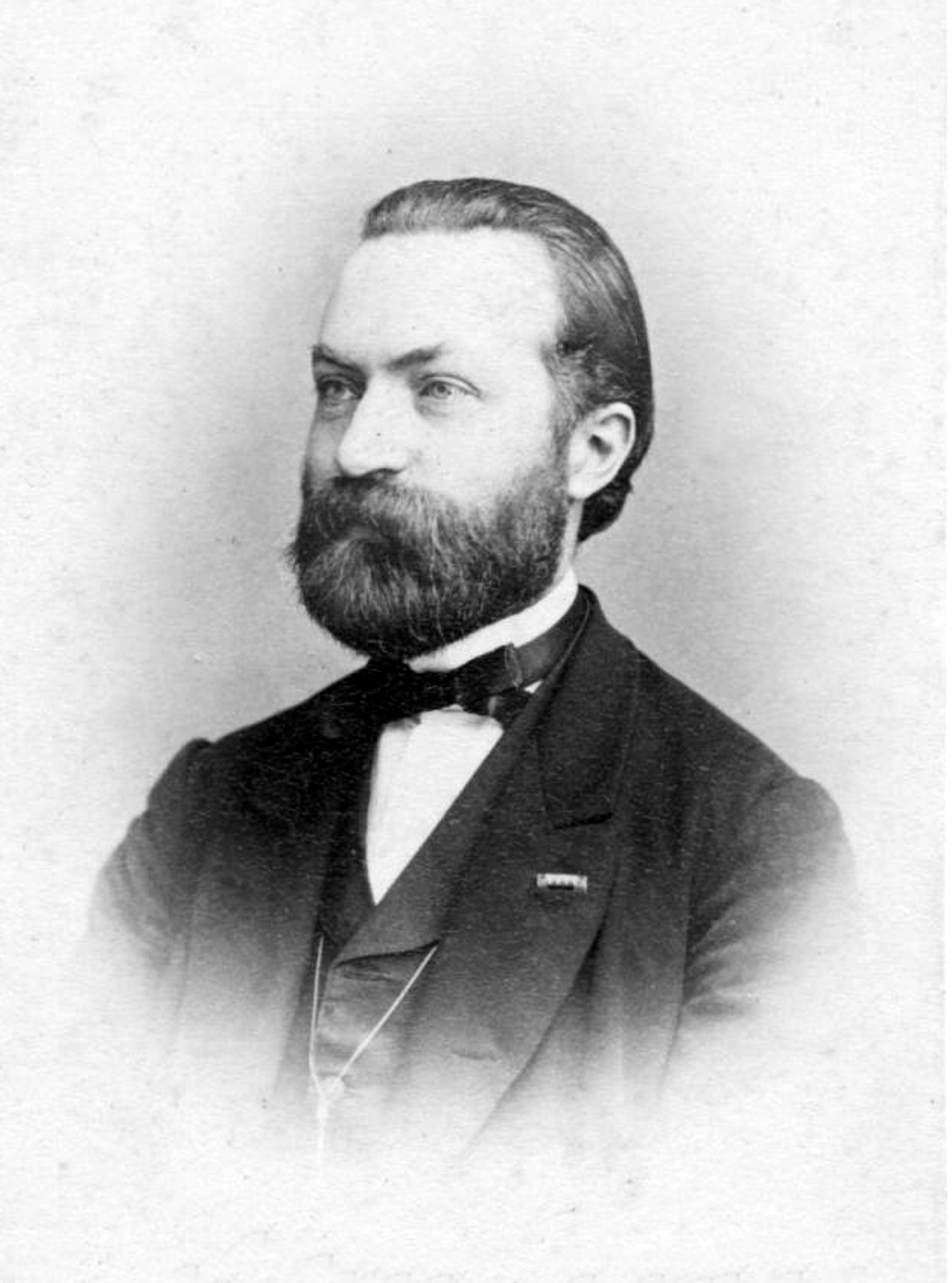 Artist: W. Höffert Date/place: Unknown date/Leipzig Subject: Friedrich Wilhelm Grützmacher Medium: Photographic posetiv Notes: German cellist. Born in Dessau 01.03. 1832 - dead in 23.02. 1903 Original belongs to the Archives at [#//bergenbibliotek.no/digitale-samlinger” Bergen Public Library]